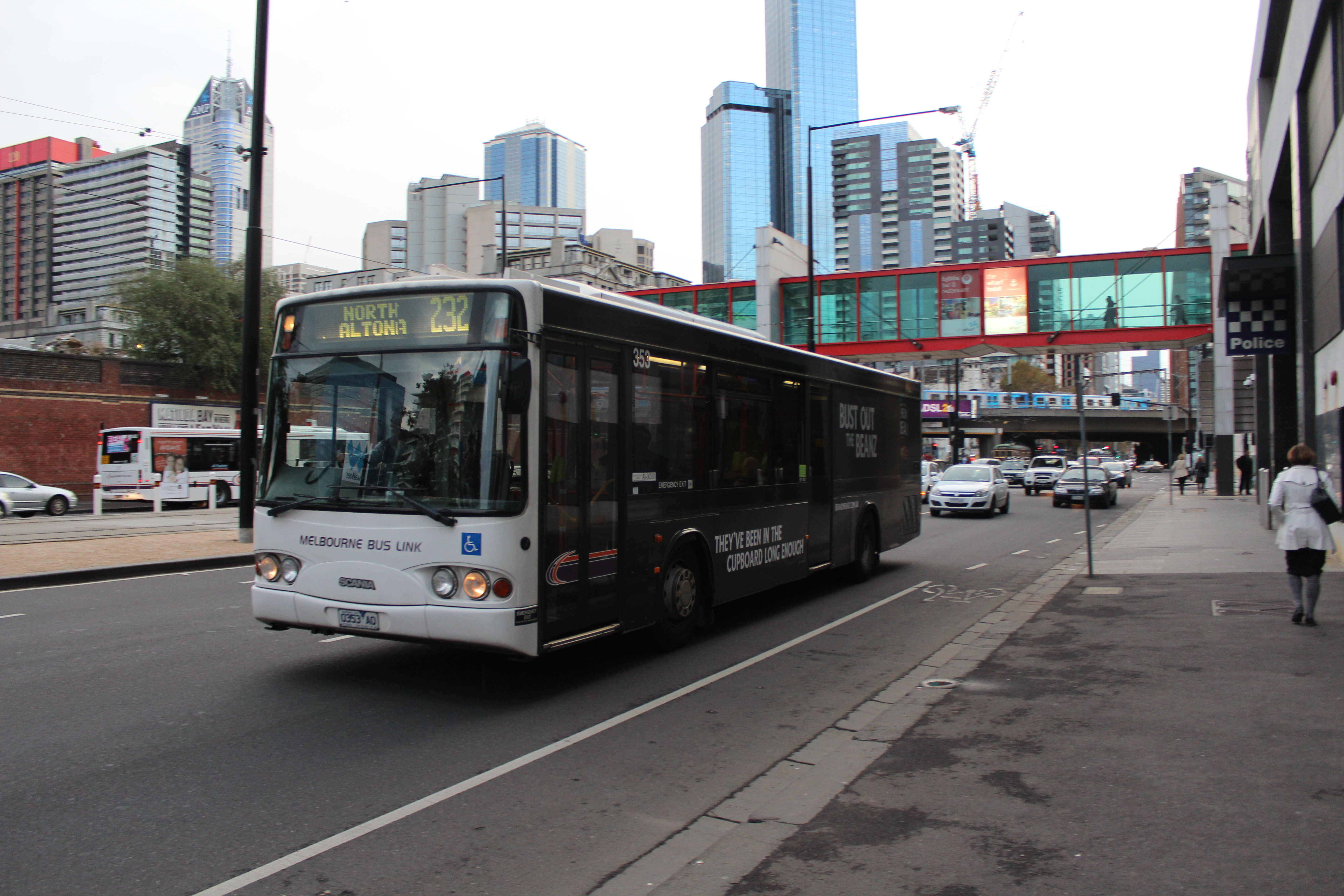 Melbourne Bus Link number 353 (0353AO) Volgren Scania in Flinders St West on route 232, 2013.